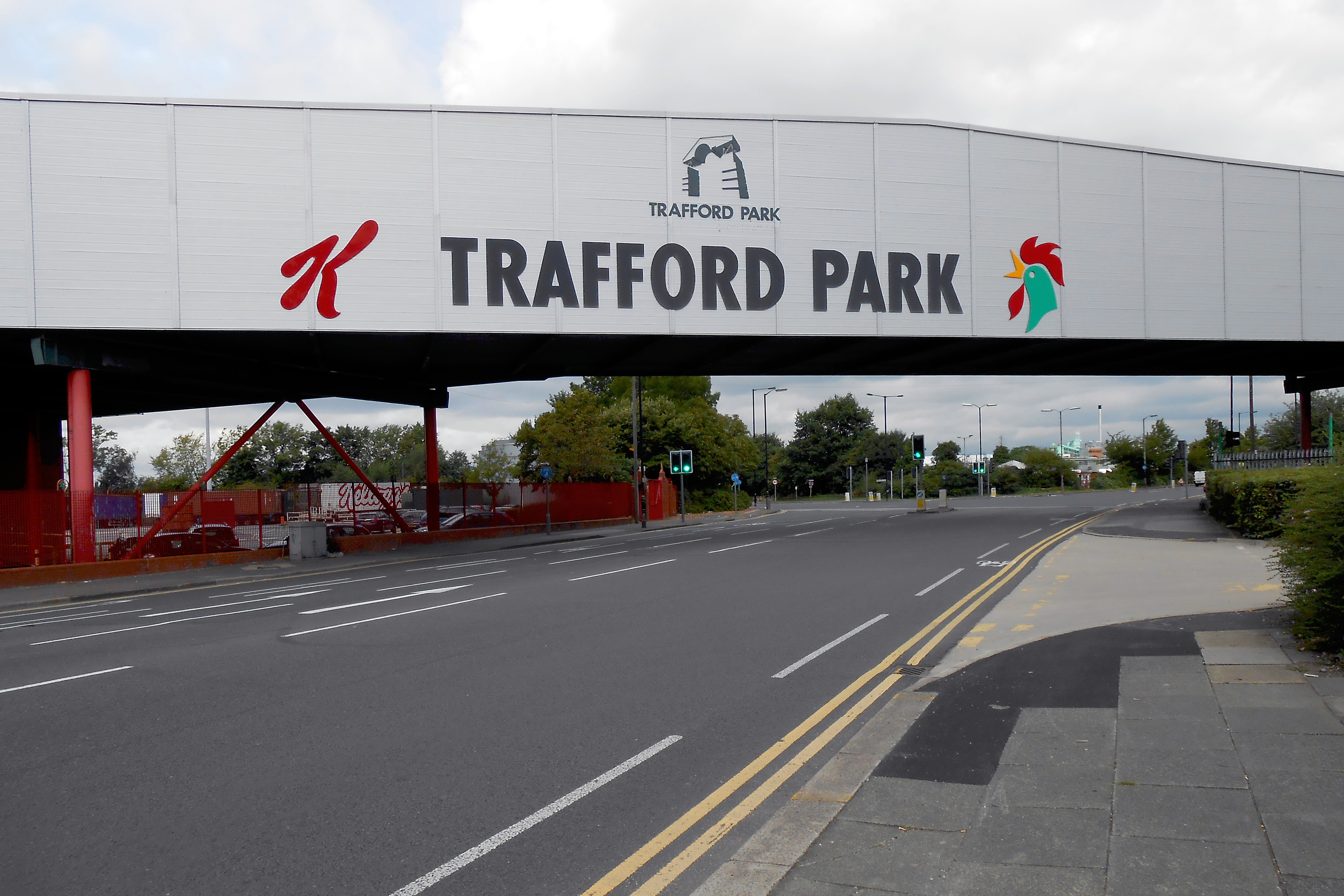 Photo taken at the Trafford Park Kellog's plant, Greater Manchester, England